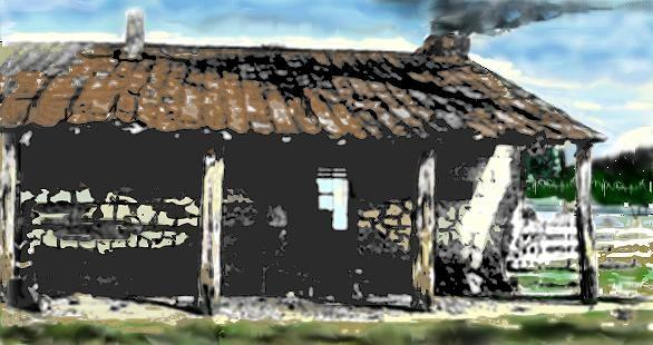 Navarro Ranch home